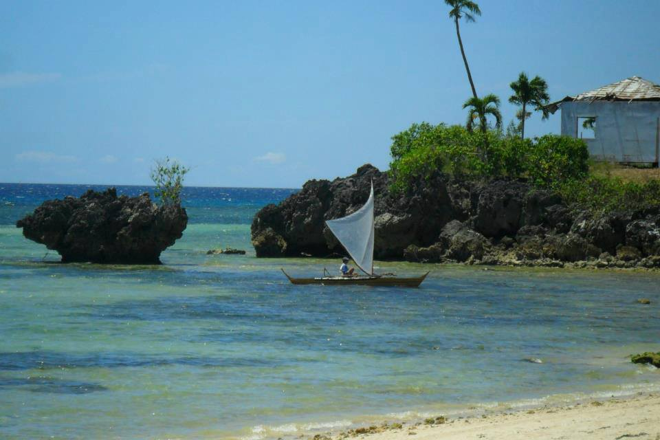 Tabuelan Beach I took in 2013